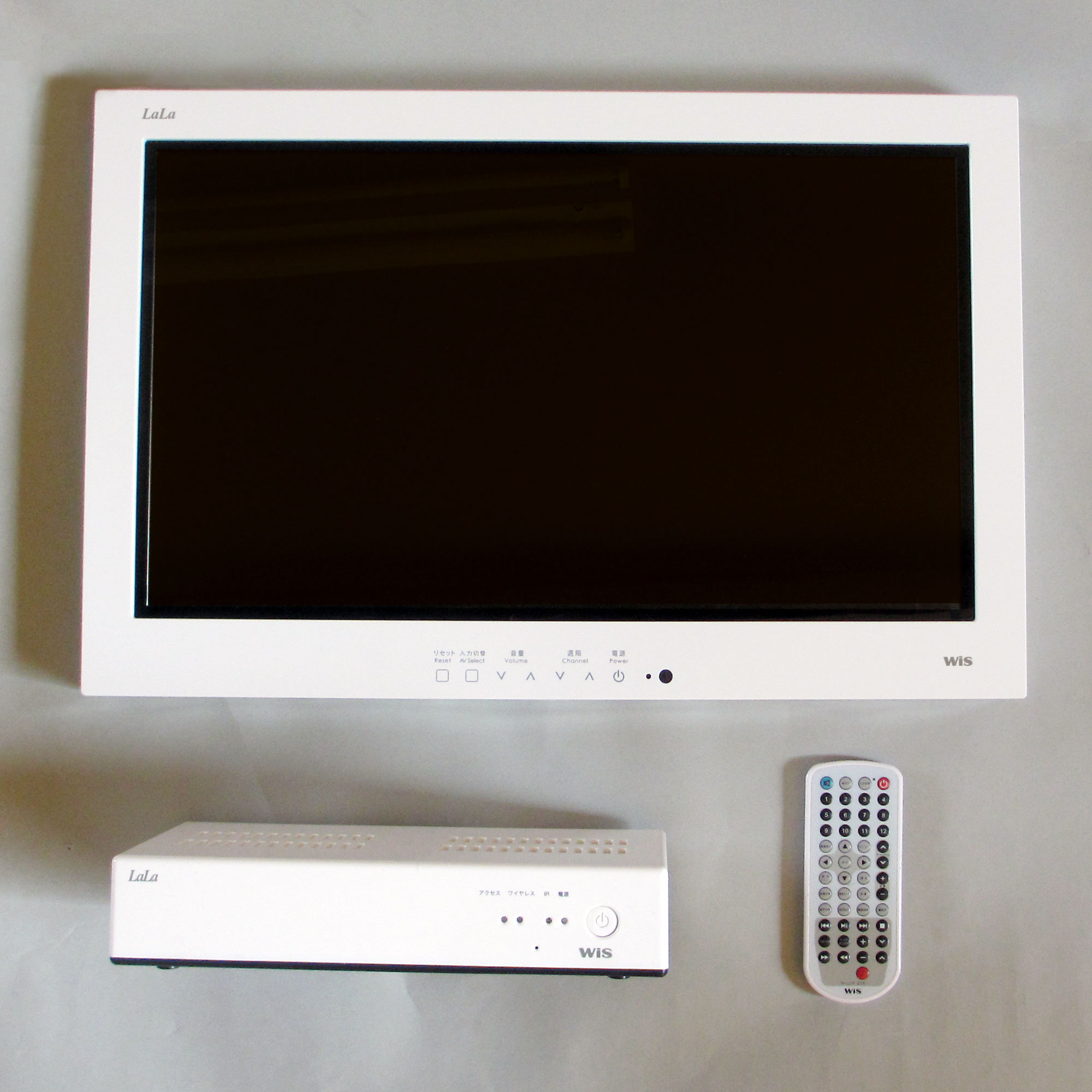 Waterproof wireless TV LaLa BW-2201